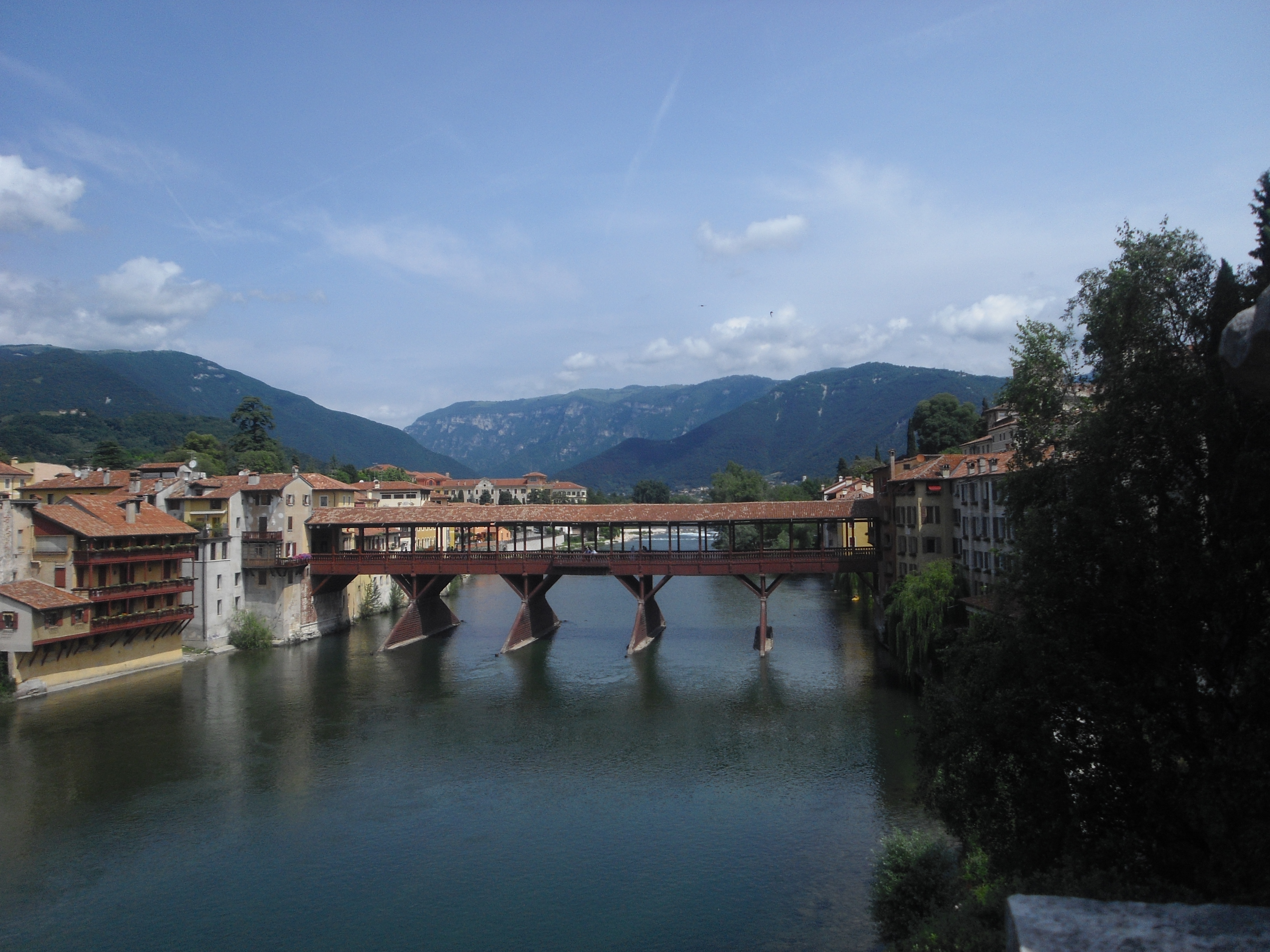 Bassano wooden bridge on Brenta river - view from South